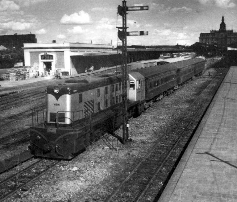 A train pulled by a Whitcomb locomotive in Retiro (Belgrano) station of Buenos Aires, leaving to Villa Rosa.